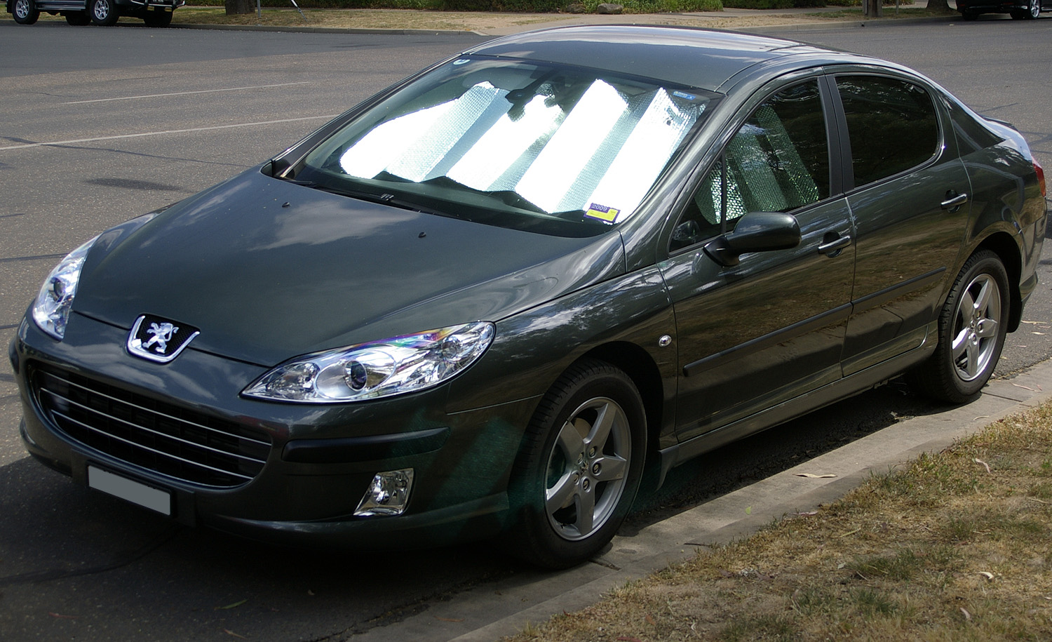 2004 - 2007 Peugeot 407 HDi.